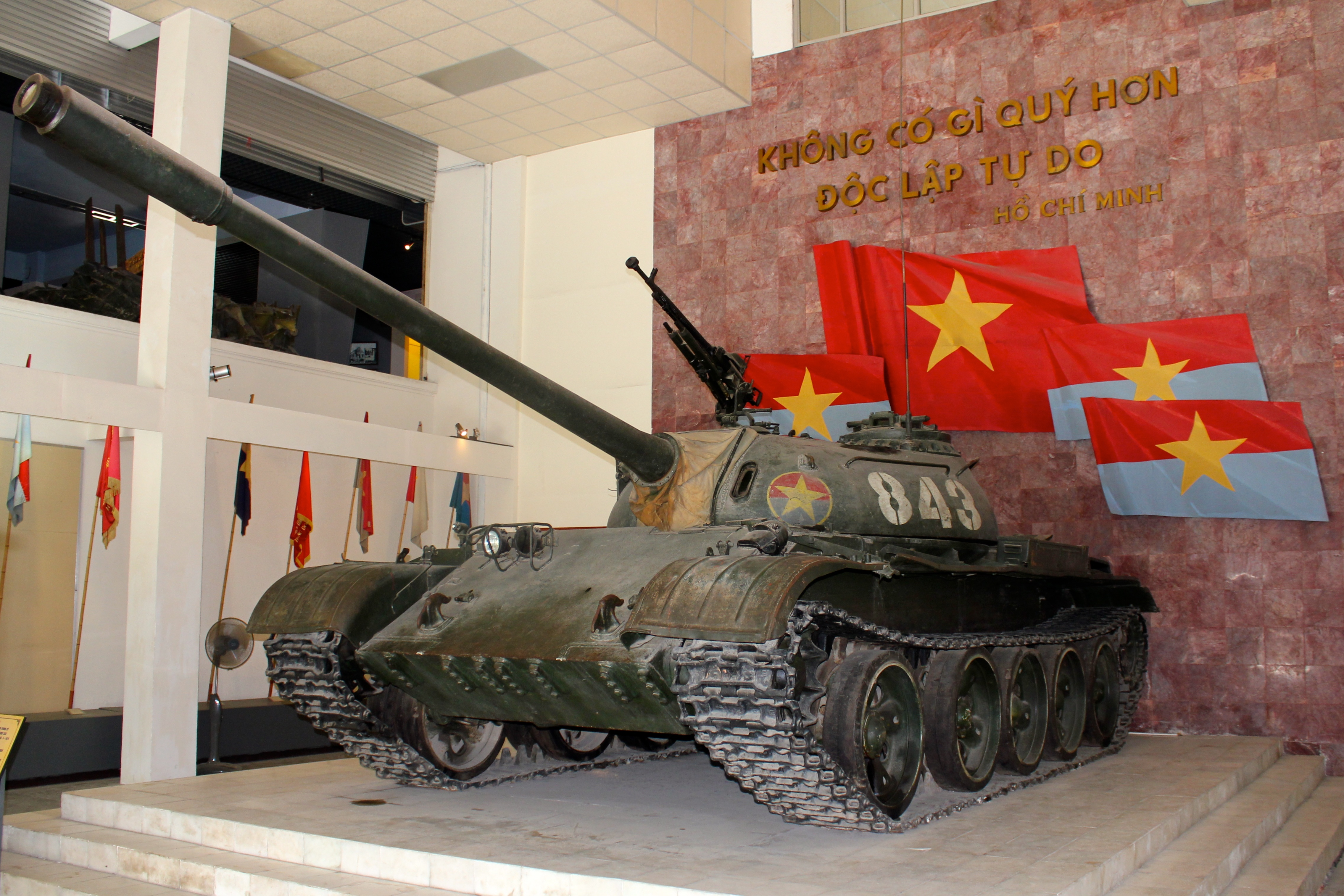 T-54B tank at the Vietnam Military History Museum